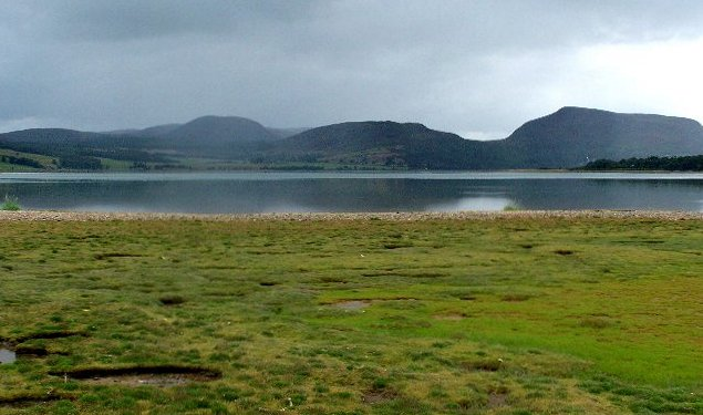 Loch Fleet from the east bank